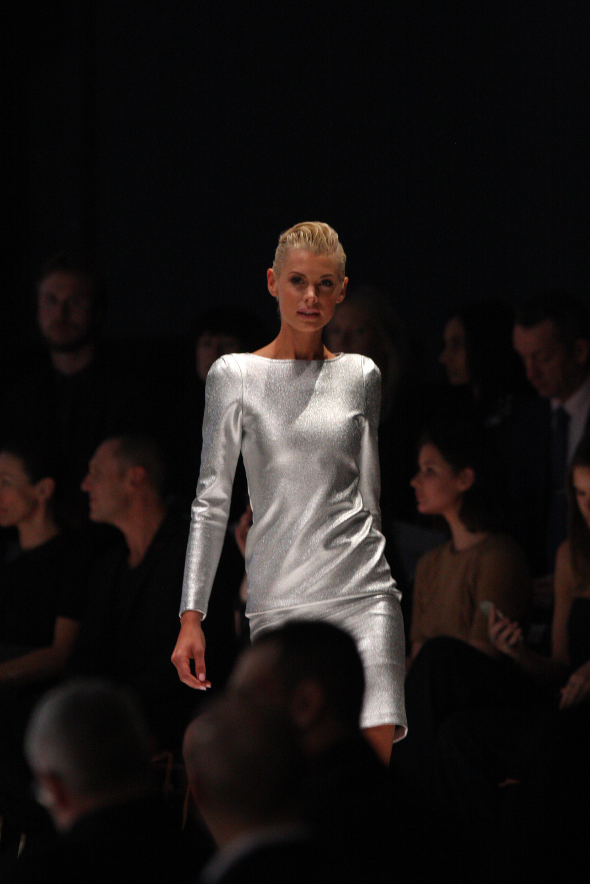 Myer Spring/Summer 2015 Fashion Launch. Kate Peck wearing White Suede